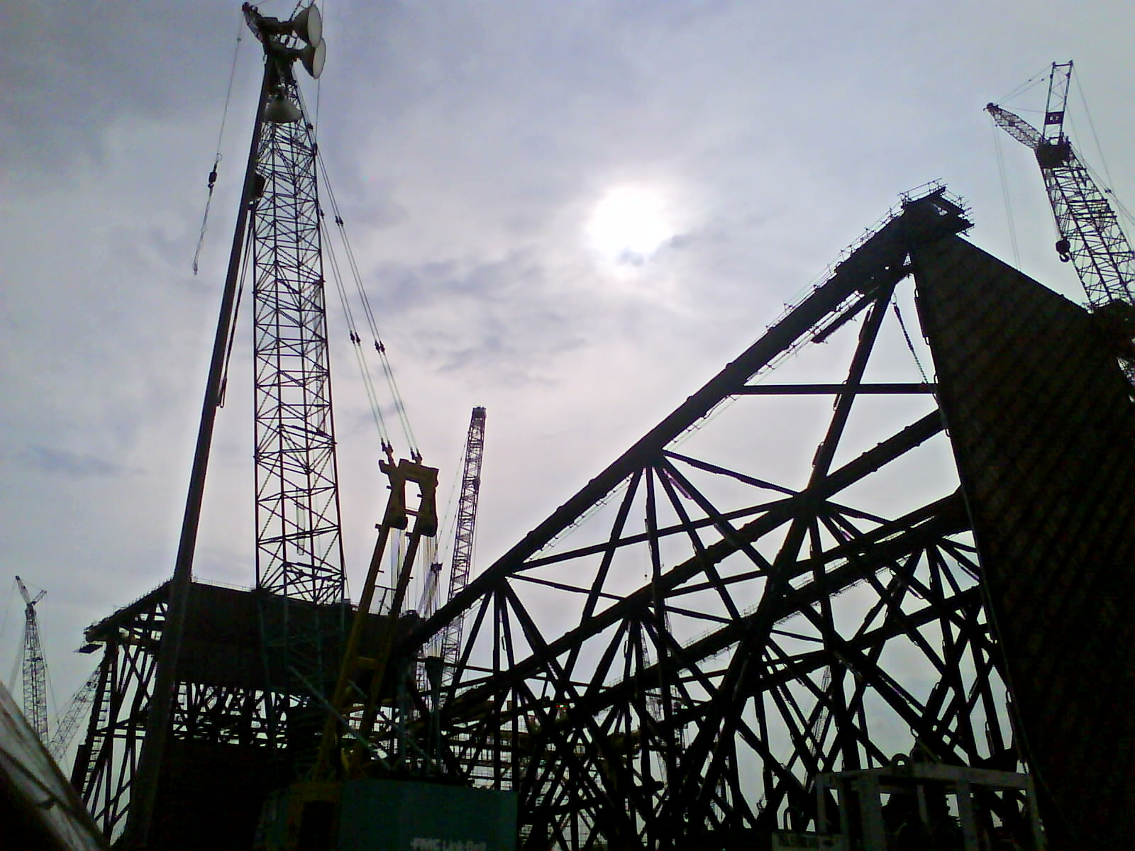 Shipyard MMHE